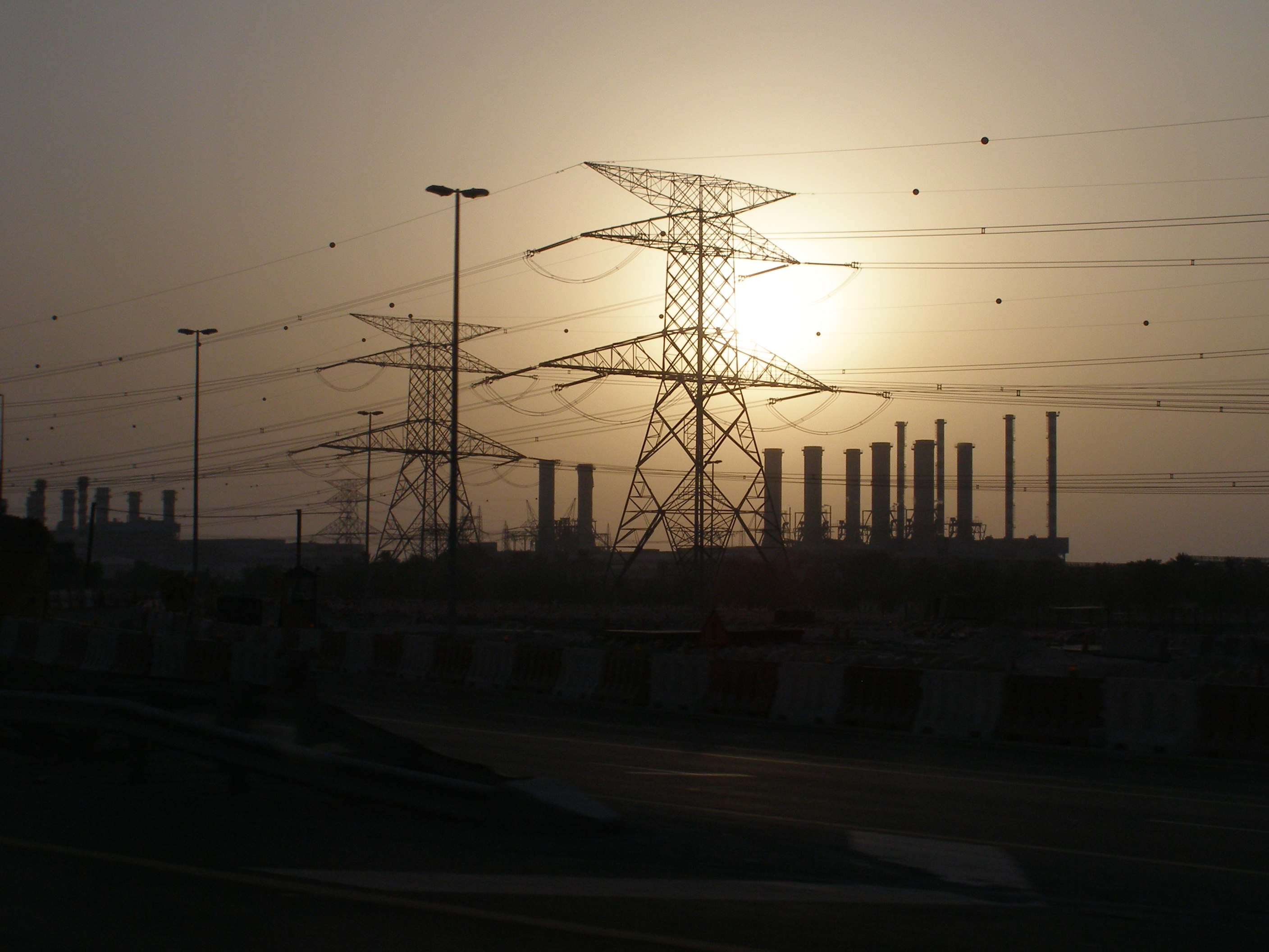 High-voltage power lines on route to Abu Dhabi from Dubai on Sheikh Zayed Road